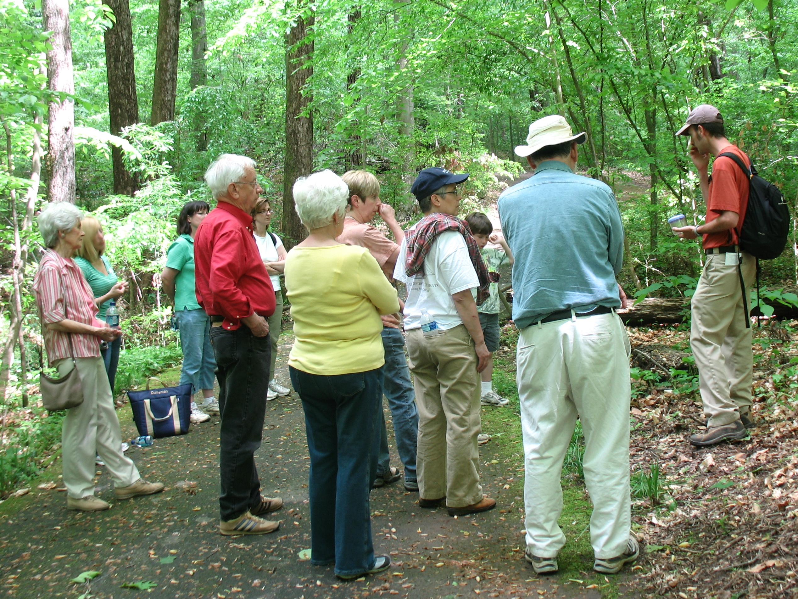 Fernbank Forest Walk and Ivy Pull